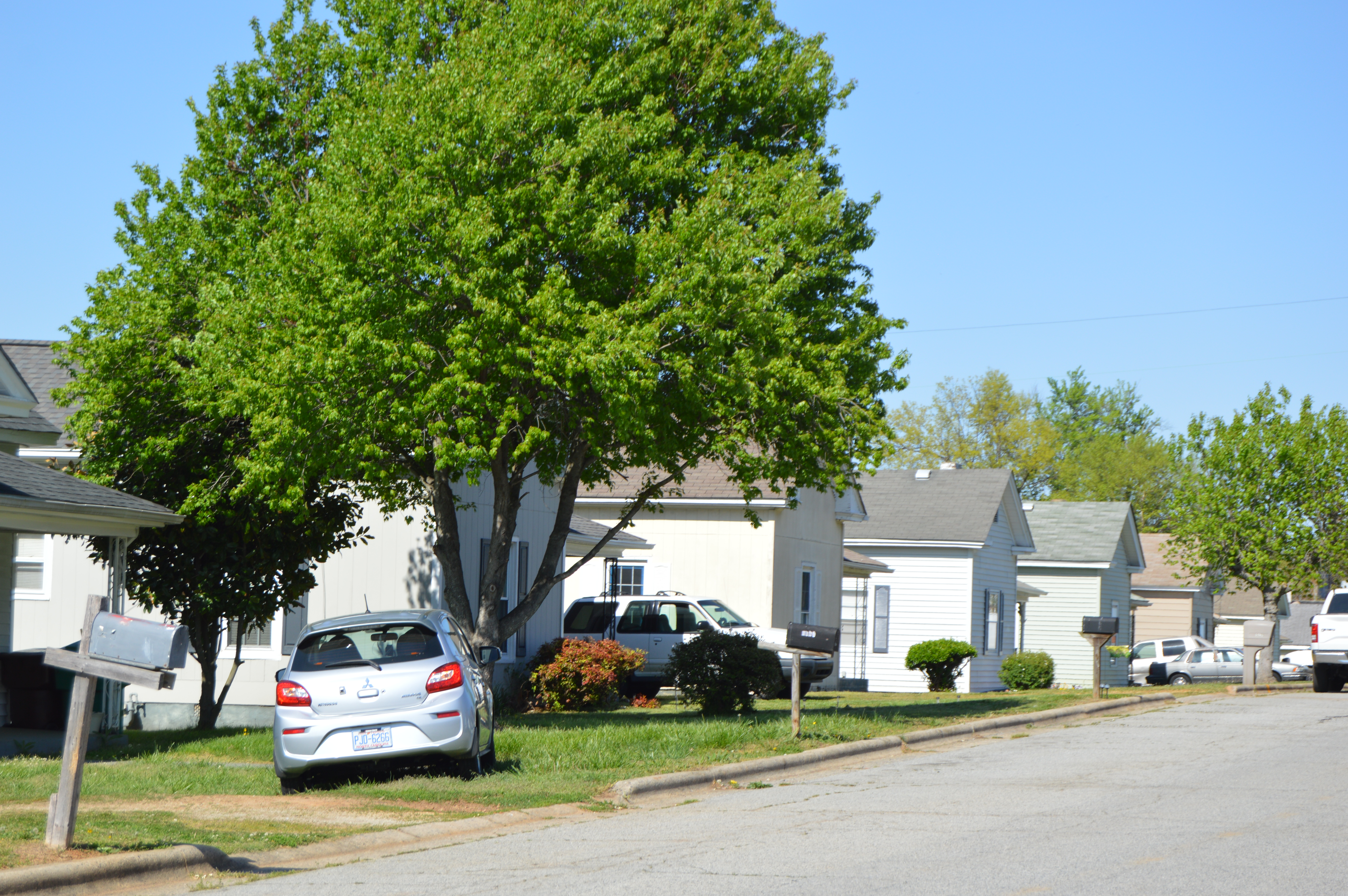 Houses on the northern side of Textile Place east of Jordan Place in High Point, North Carolina, United States. This block is part of the Highland Cotton Mills Village Historic District, a historic district that is listed on the National Register of Historic Places.